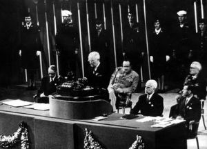 President Harry S. Truman addressing the United Nations Conference in San Francisco, California. From left to right: Unknown person, President Truman, Harry Vaughan, Secretary of State Edward Stettinius, and Alger Hiss. Armed Service personnel and the flags of nations are in the background. (Original is oversize)